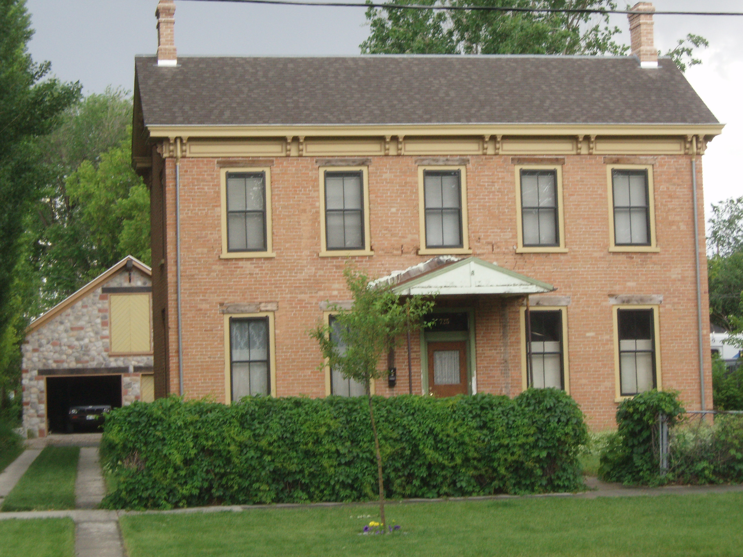 The Thomas and Mary Hepworth House, a historic home in northwestern Salt Lake City, Utah, United States.